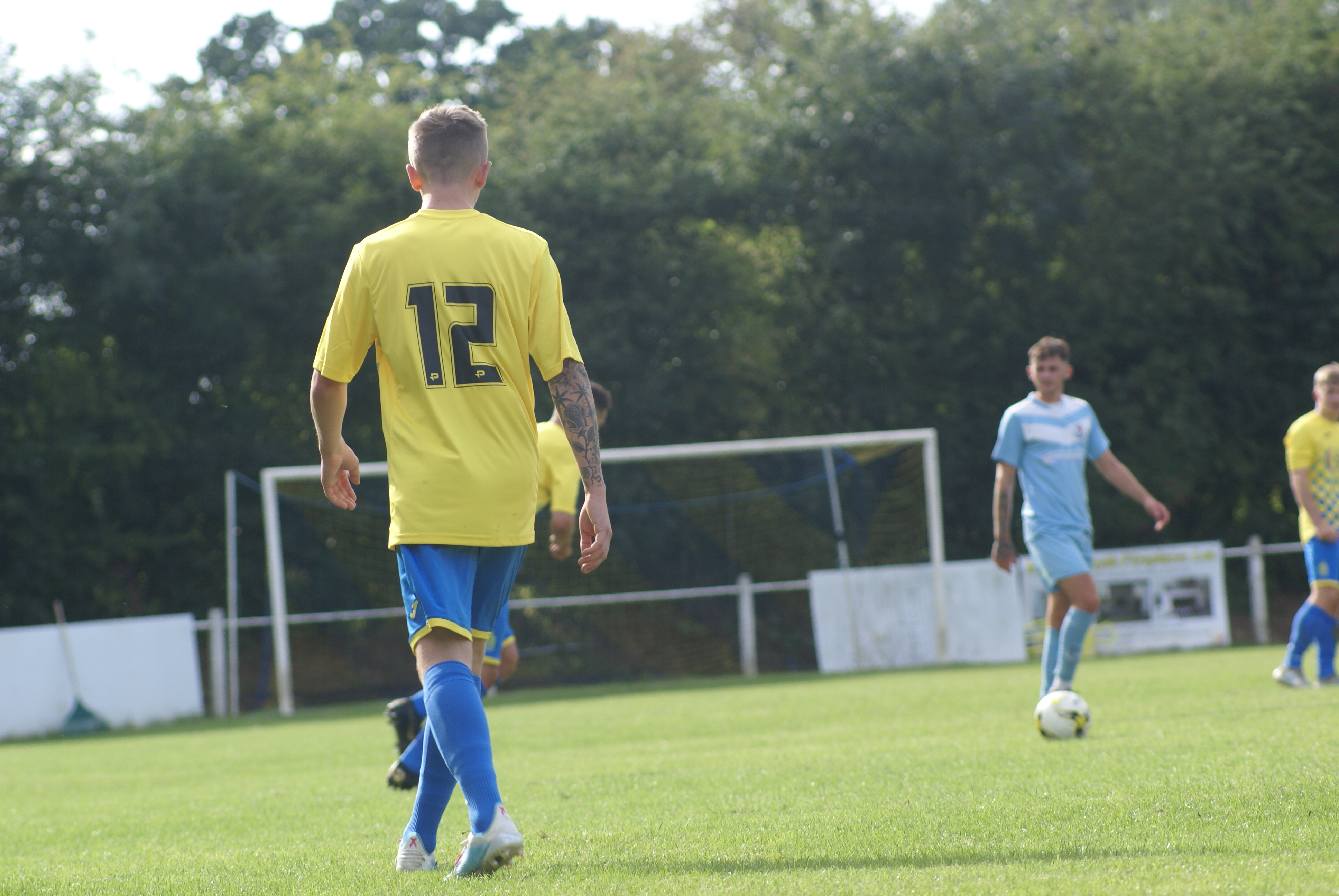 Harpenden town fc 2-1 Leighton town fc